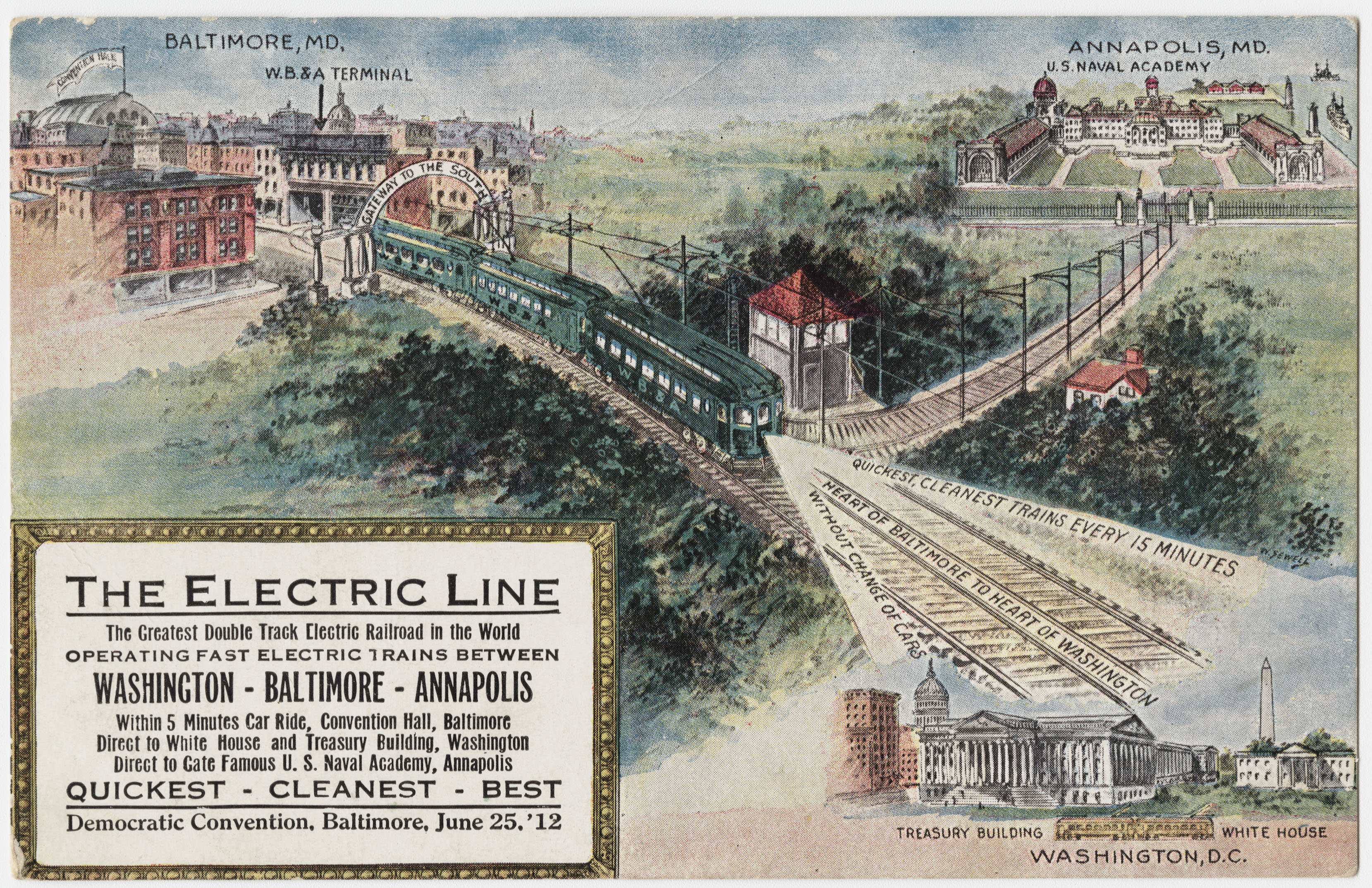 Electric railroad from Baltimore, Maryland to Annapolis, Maryland and Washington DC, circa 1912. This postcard advertises the electric railroad service from the Democratic Convention of 1912, held in Baltimore, to the United States Naval Academy in Annapolis, Maryland and the White House and Treasury Building in Washington, DC.